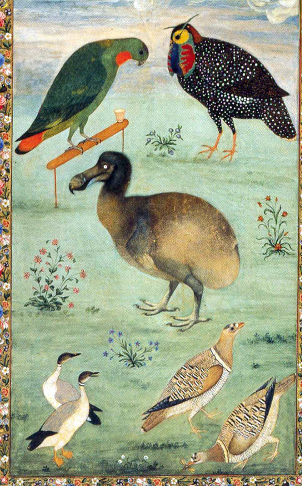 Painting by the Mughal artist Ustad Mansur from c 1625, which may be one of the most accurate depictions of a live dodo. Two live specimens were brought to India in the 1600s according to Peter Mundy, and the specimen depicted might have been one of these. Other birds depicted are Loriculus galgulus (upper left) Tragopan melanocephalus (upper right), Anser indicus (lower left) (although the pose and pattern suggests a hybrid, possibly related to the Indian runner duck - note upright posture, long neck and smaller size although this is clearly not to scale going by the lorikeet) Pterocles indicus (lower right)